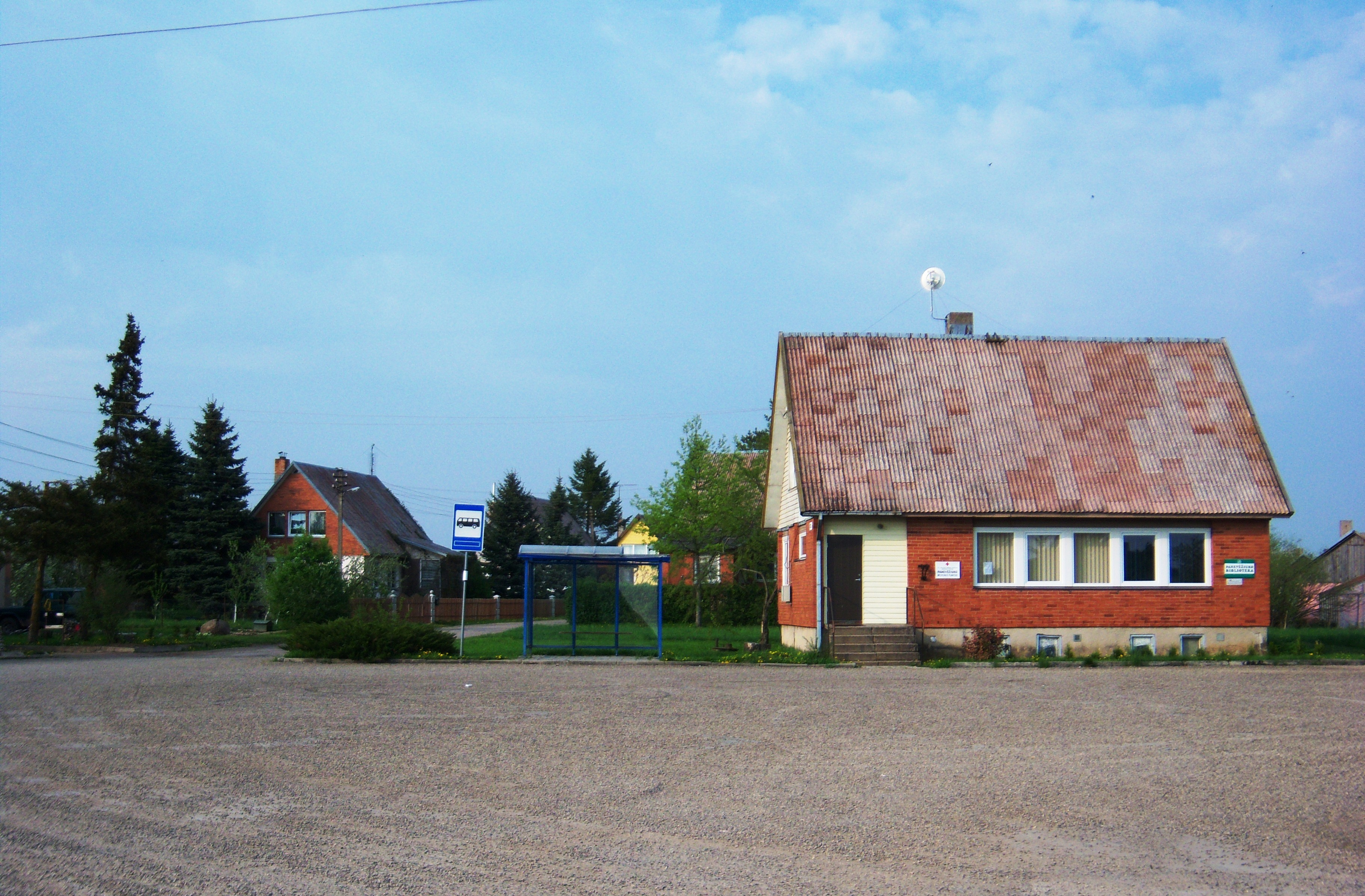 Panevėžiukas, center, Kaunas District. Lithuania